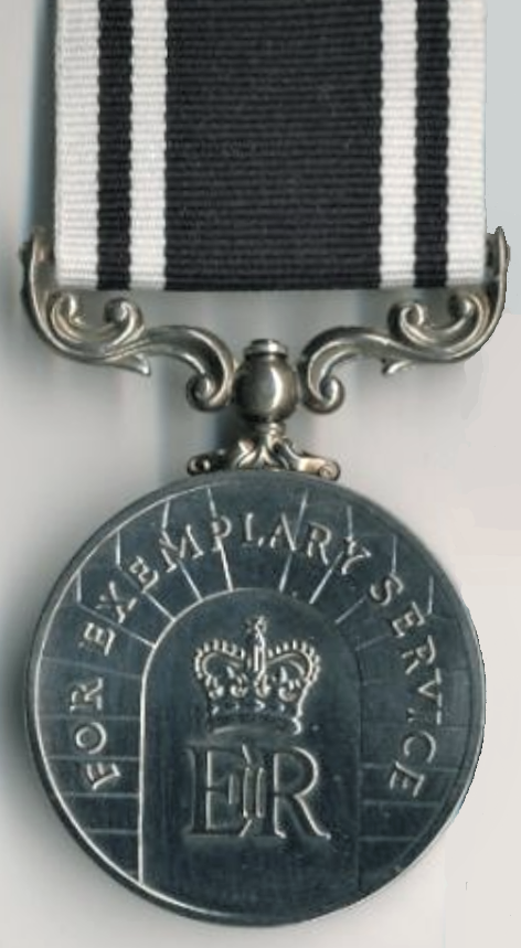 British medal for long service by prison officers, introduced in 2010